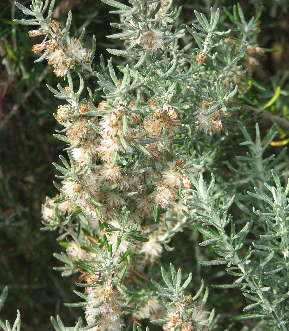 Olearia axillaris, (culivated, labelled) Geelong Botanic Gardens Victoria, Australia